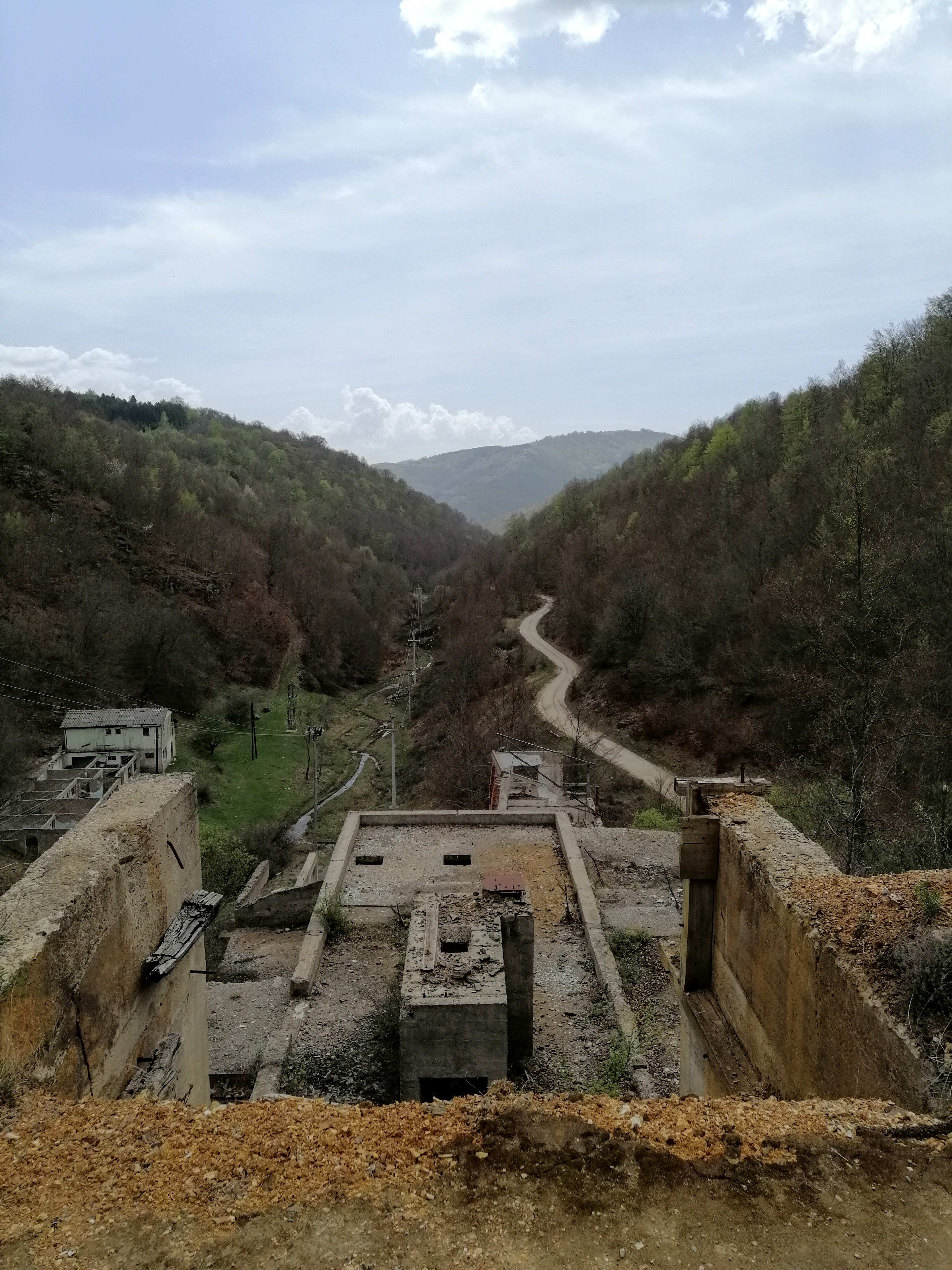 Former flotation of the mine Krstov Dol